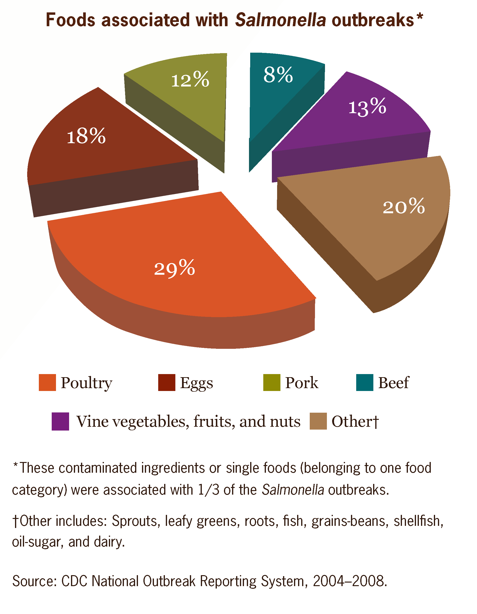 Foods associated with Salmonella outbreaks in US